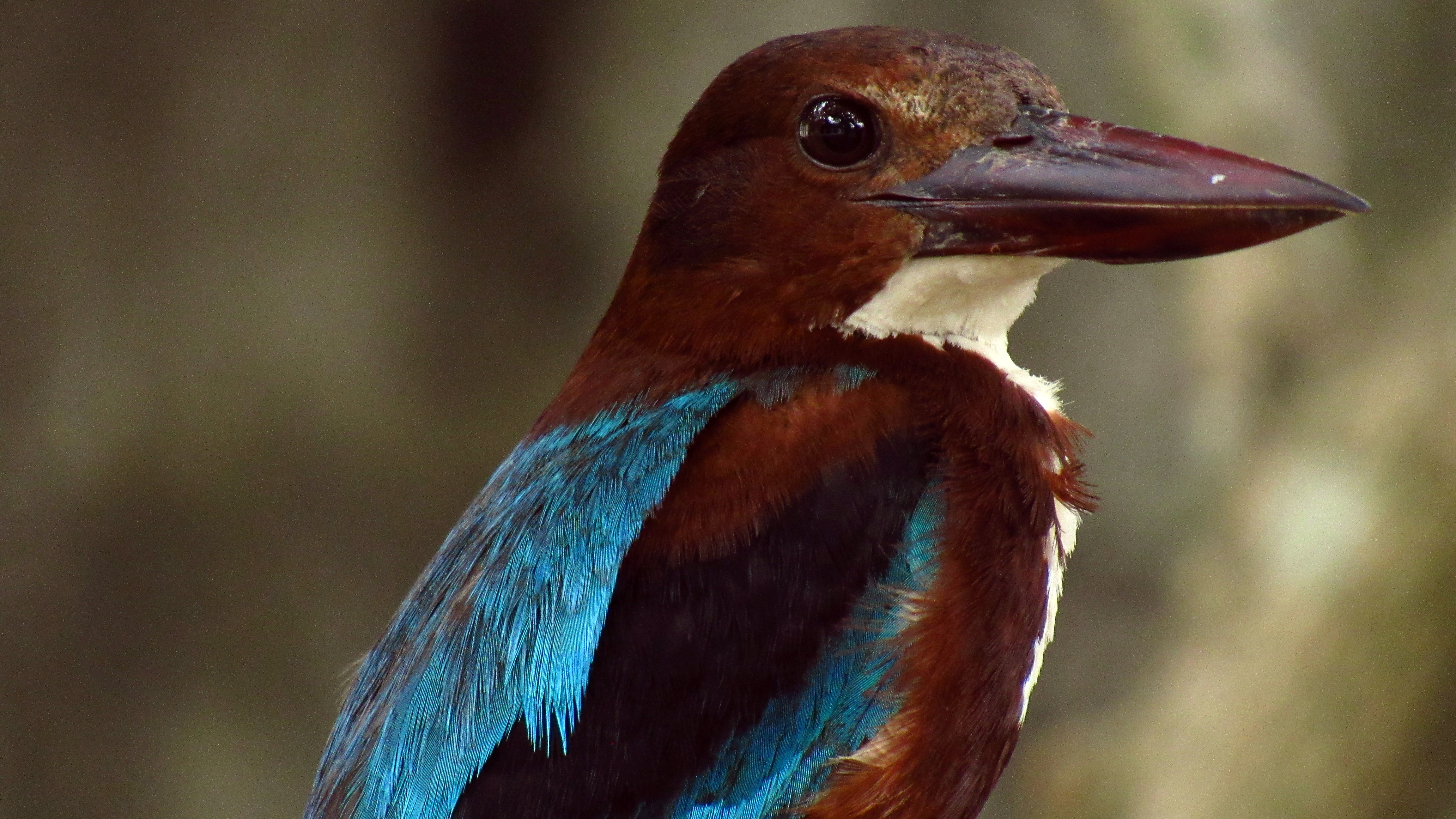 White-throated Kingfisher (Halcyon smyrnensis fusca), in Sri Lanka.